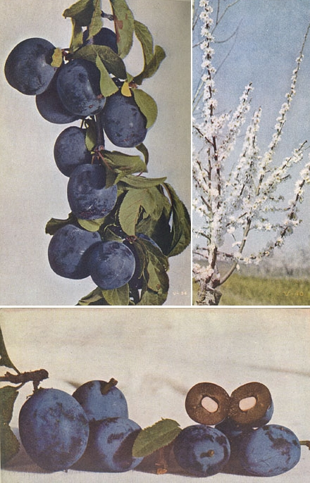 Luther Burbank's stoneless plum. Right - Splendor Prune Graft in Blossom